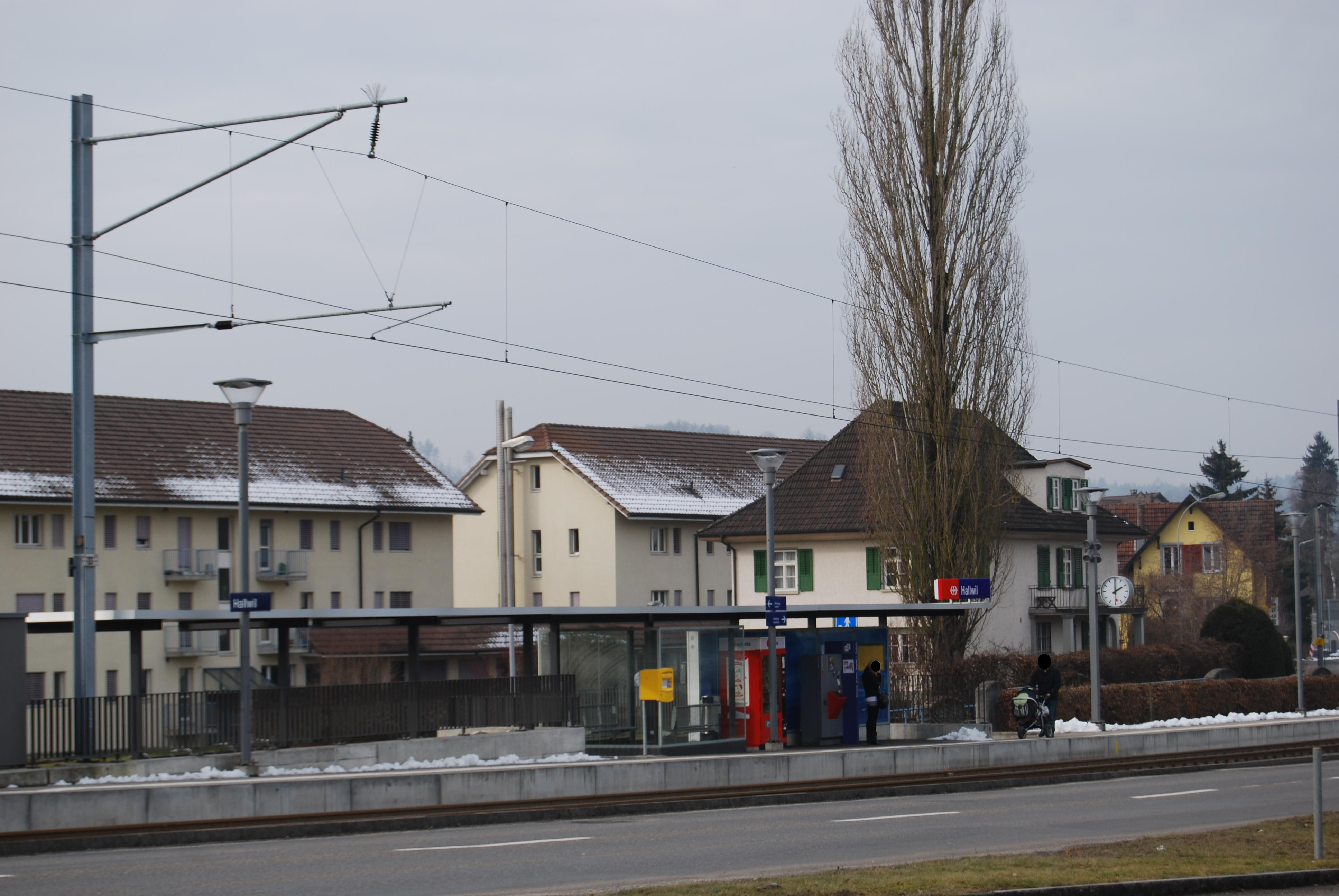 Train station of Hallwil, canton of Aargau, SwitzerlandEsperanto: Trajnhaltejo de Hallwil, Kantono Argovio, Svislando